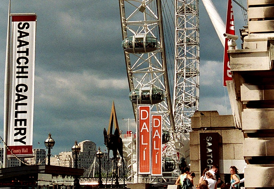 The image (taken in May 2004) shows the outside of The Salvador Dali 2004 London Exhibition organized by Saatchi Galleries in West Bank, London, next to the Thames River.